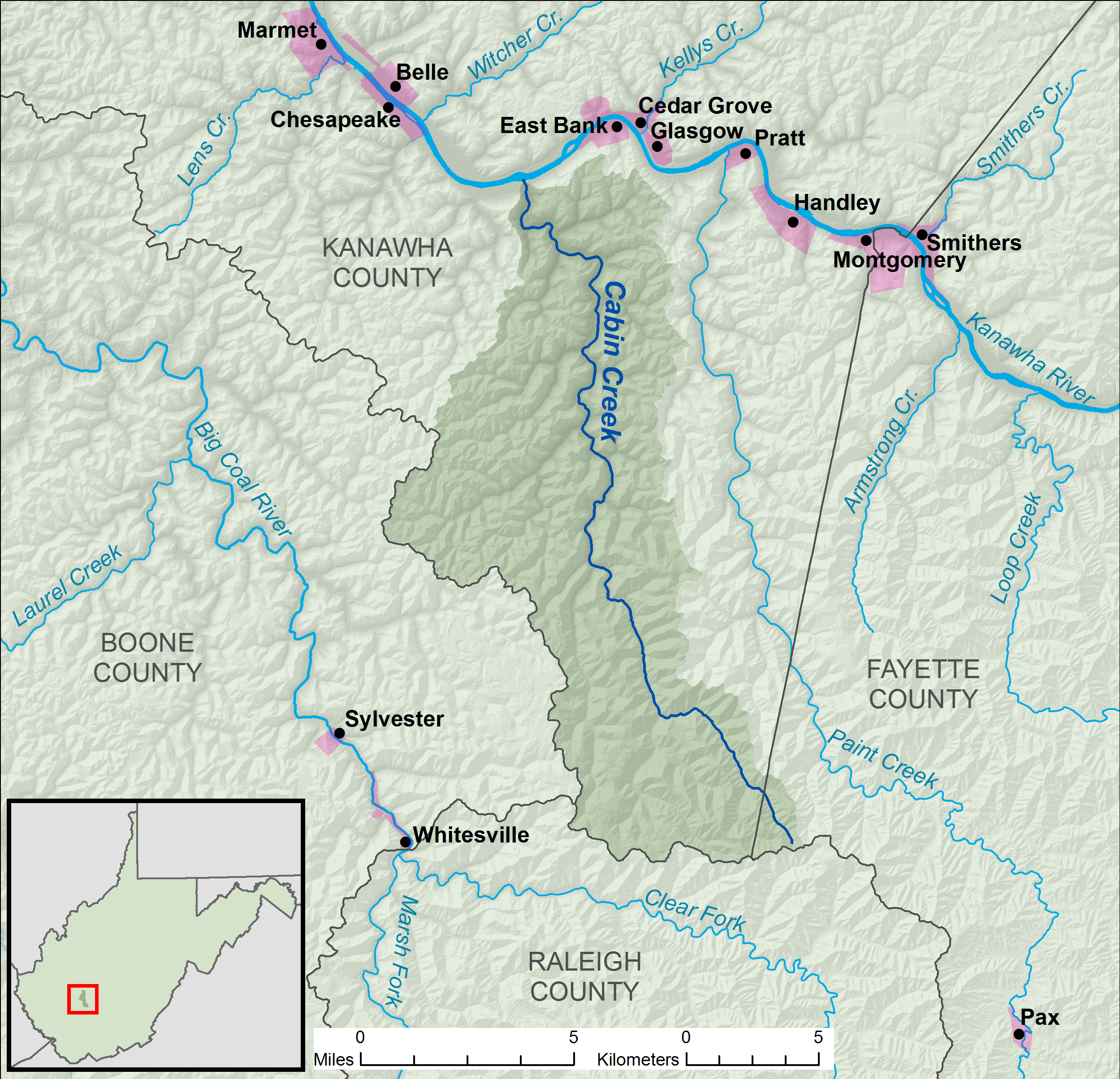 A map of Cabin Creek and its watershed (USGS HUC-10 code 0505000602), in Kanawha and Fayette counties in West Virginia.